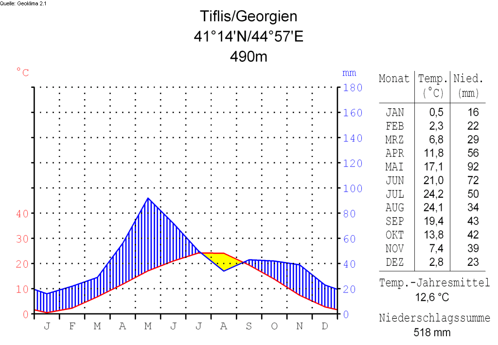 climate chart in the format by Walter and Lieth, metric, °Celsisus and millimeters, made with Geoklima 2.1